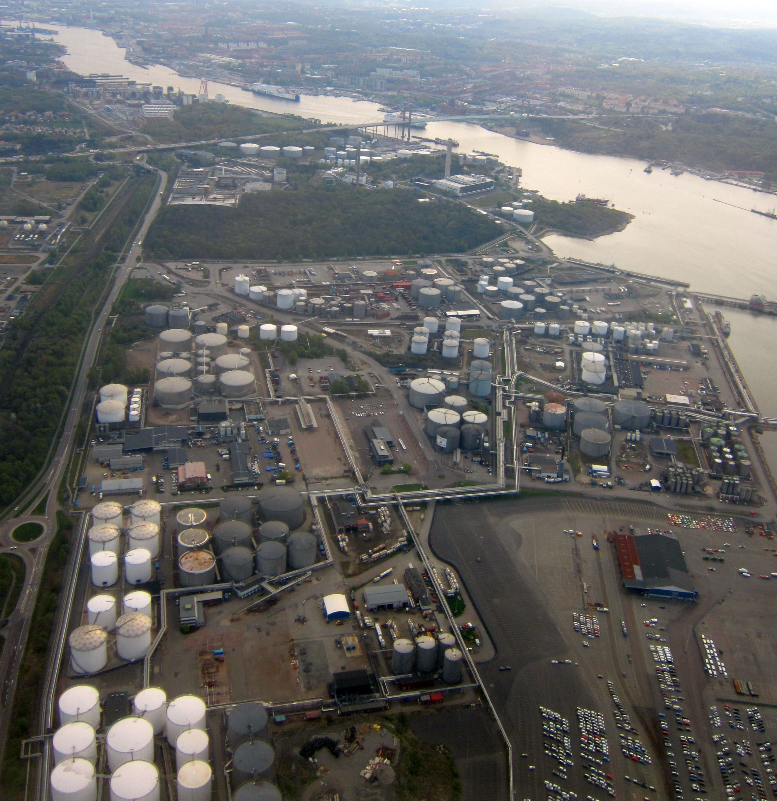 Skarvikshamnen refinery in Port of Gothenburg